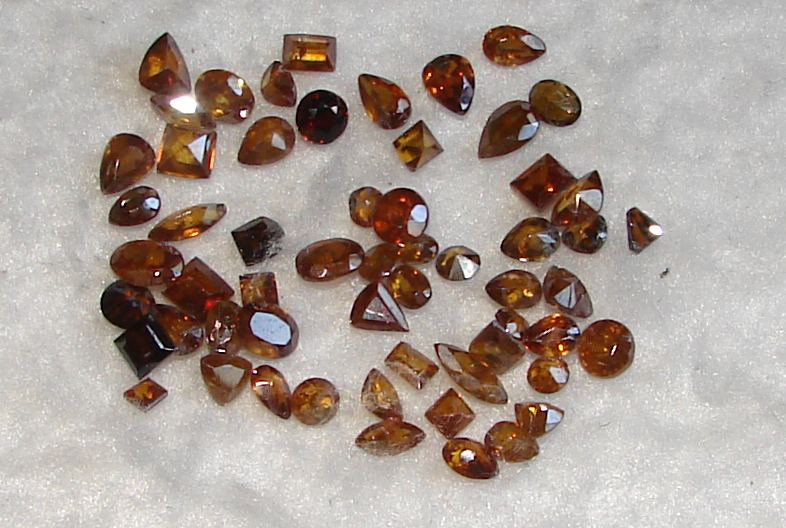 Anatase cut from Minas Gerais, Brazil. Gem cutting by Afonso Marques.